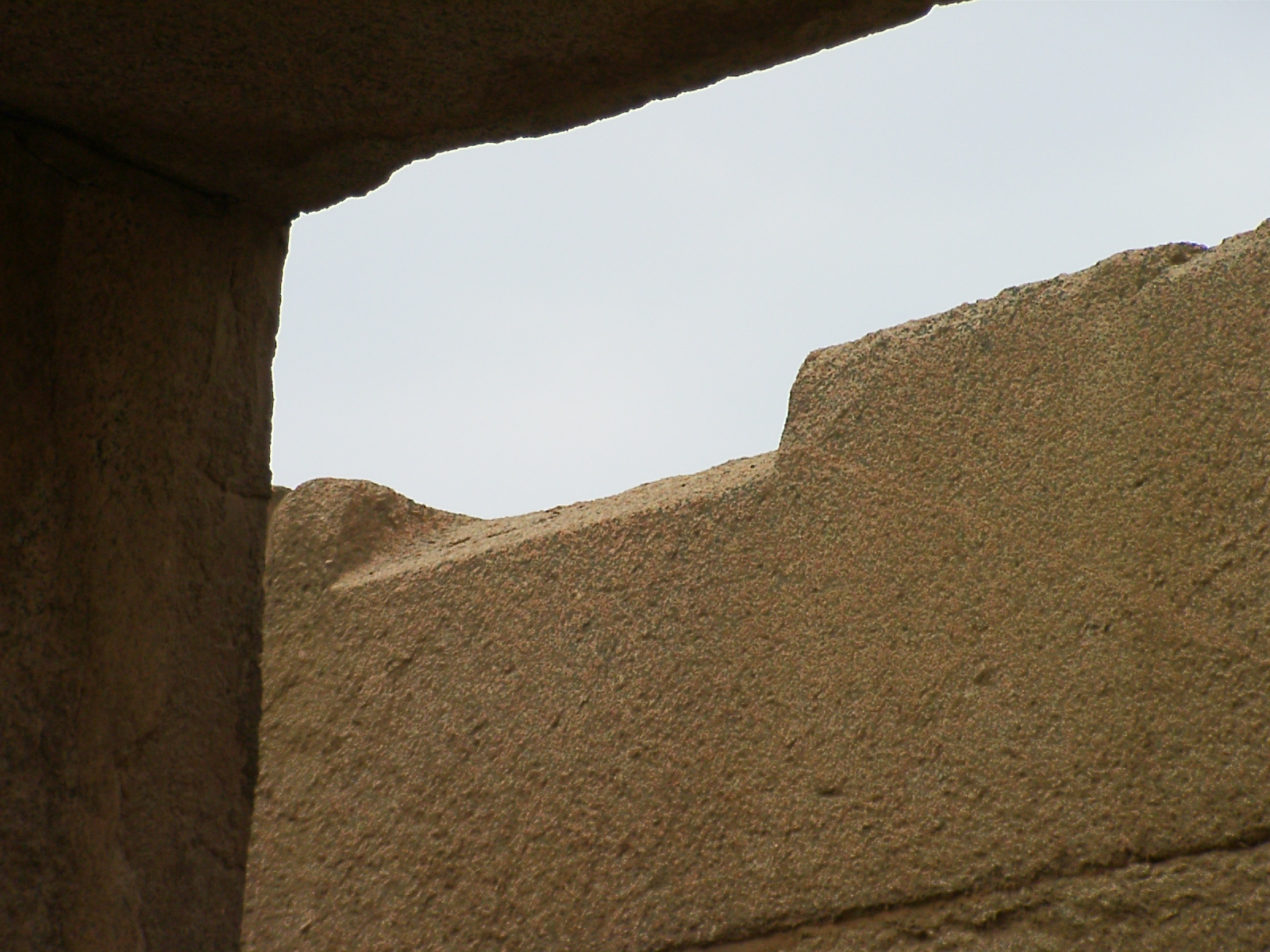 Roof window to provide light in Khafre's Valley Temple.